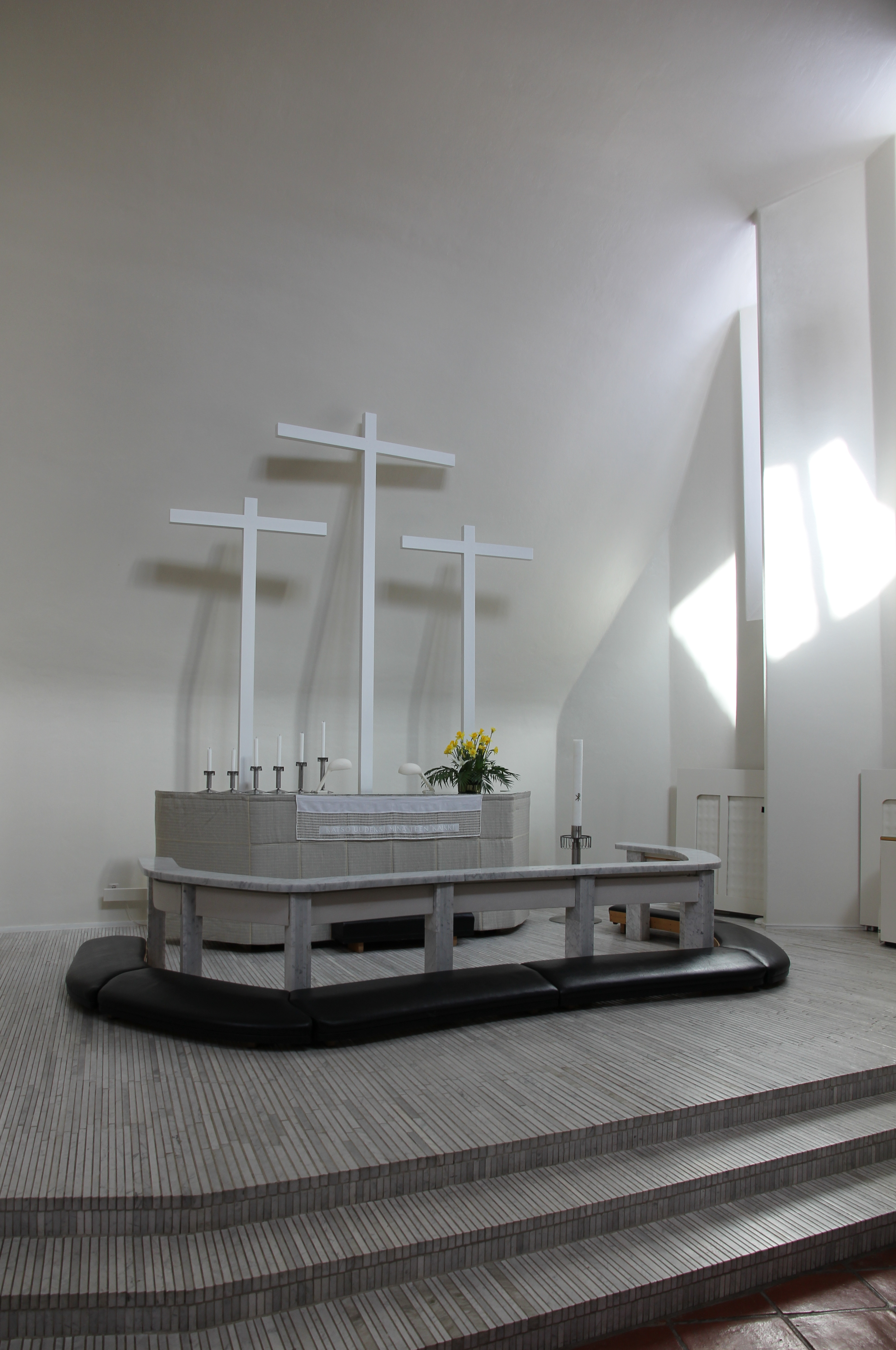 Altar of the Church of the three crosses in Imatra.